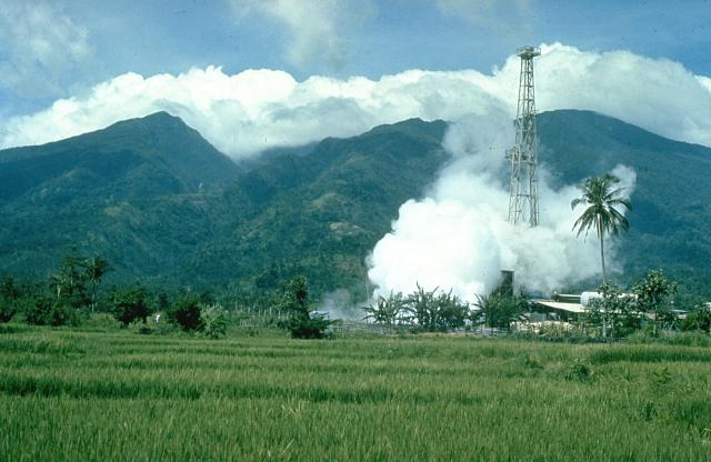 Mount Malinao is a forested stratovolcano with a summit crater that is breached to the east. The Tiwi geothermal field, seen here with the volcano in the background, is located on the east flanks of Malinao. The geothermal field is located near Luzon's largest fumarole field, which includes siliceous sinter deposits at Naglabong.